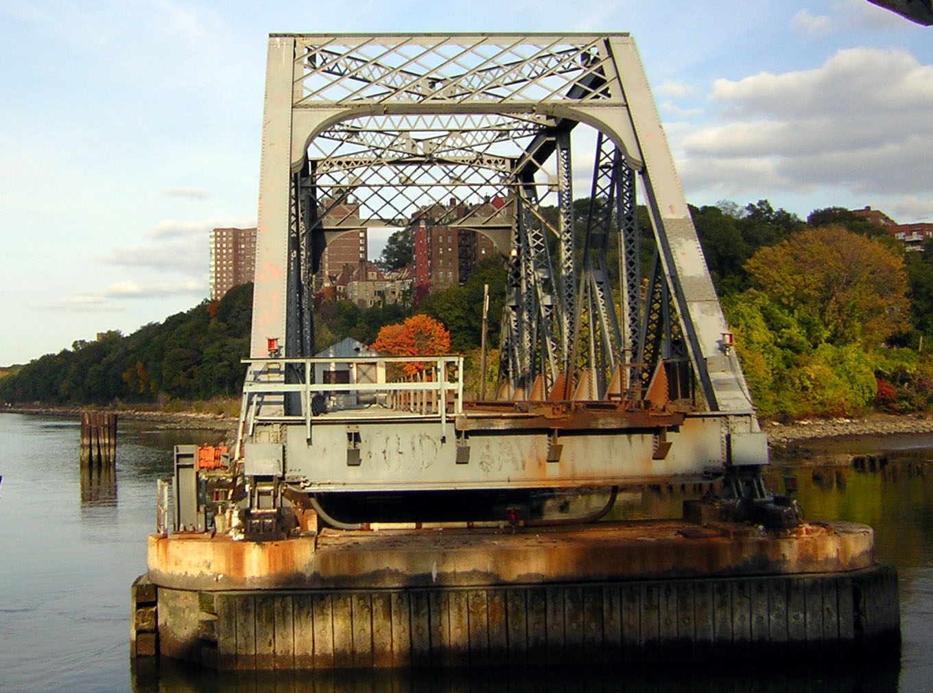 Single track railroad swing bridge across Harlem River connects West Side Line of Manhattan to The Bronx so Amtrak trains can go up the Hudson to Albany, Montreal, etc. Picture of the stationary north side, from a Circle Line boat passing between it and the swing part on a chilly afternoon.